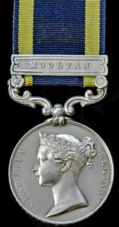 Campaign medal awarded for service in the Punjab campaign of 1848-49, also called the Second Anglo-Sikh War.